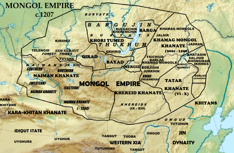 based on File:Asia laea relief location map.jpg. Data source: partially based on "Mongolian National Atlas", 2009